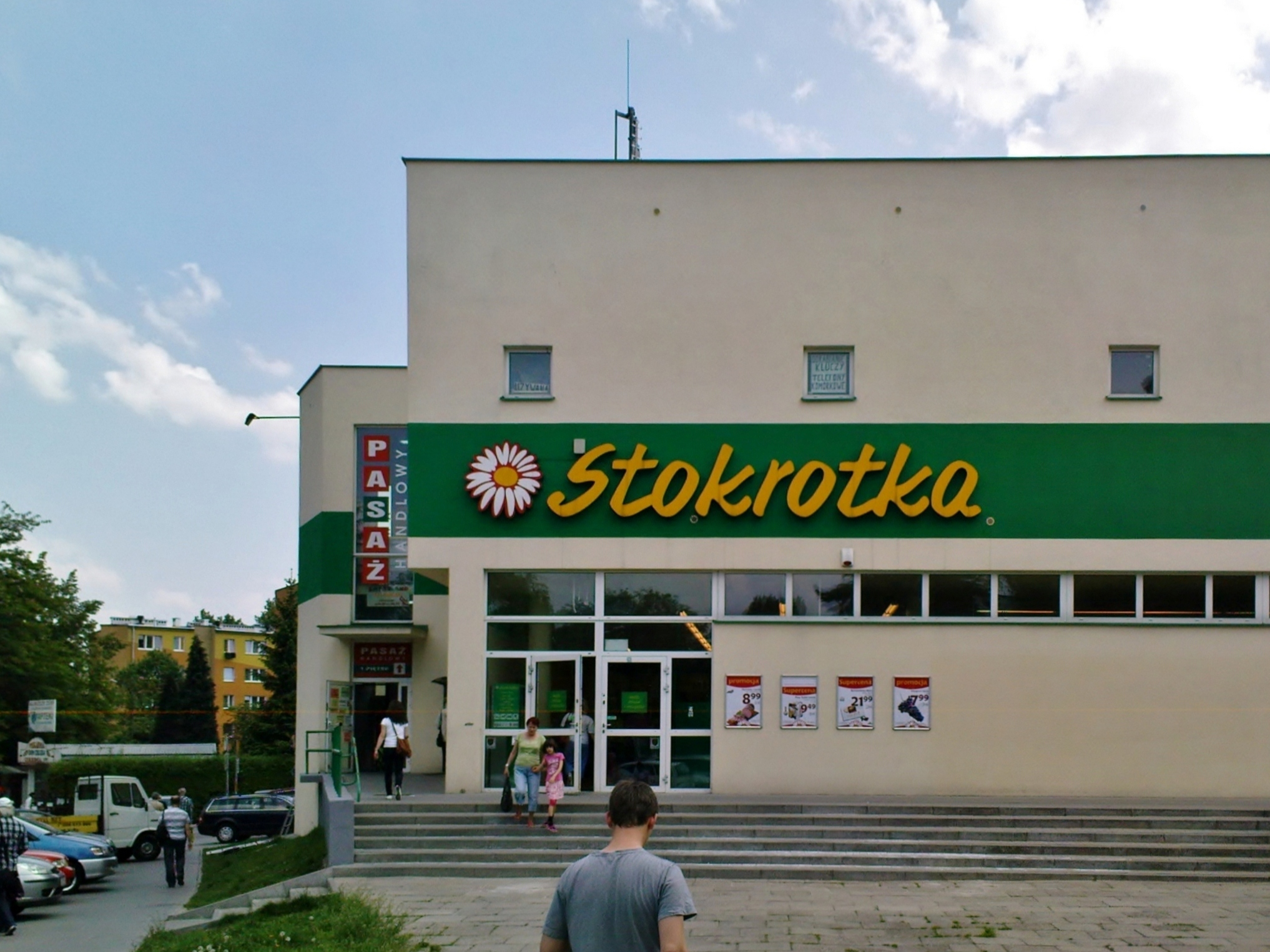 Kraków Kozłówek - supermarket "Stokrotka"